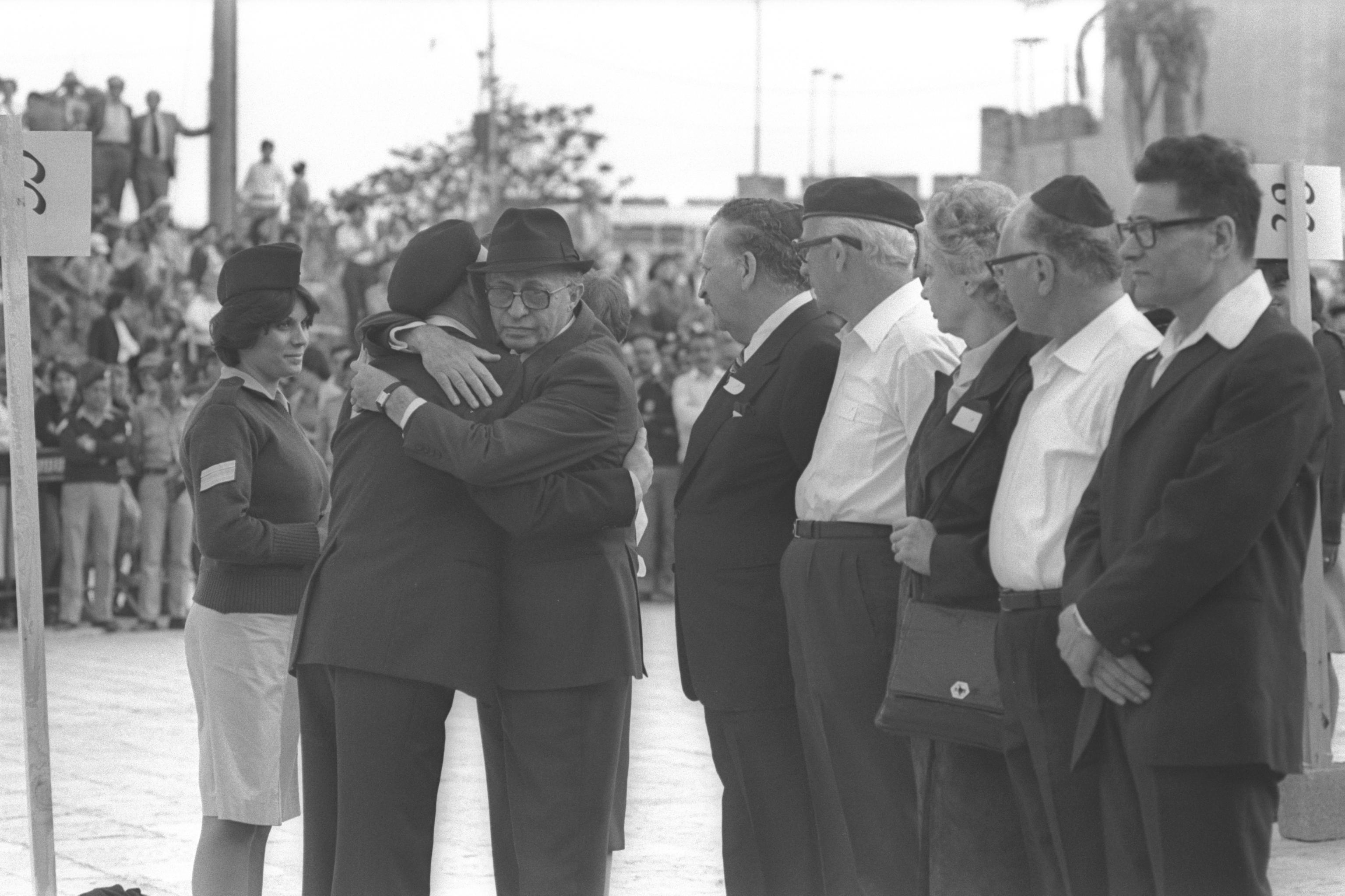 K.M. Livni "Etzel" command, awards underground medal to P.M. Menahem Begin (in the line of "Etzel" commanders). GPO.19/04/1979.